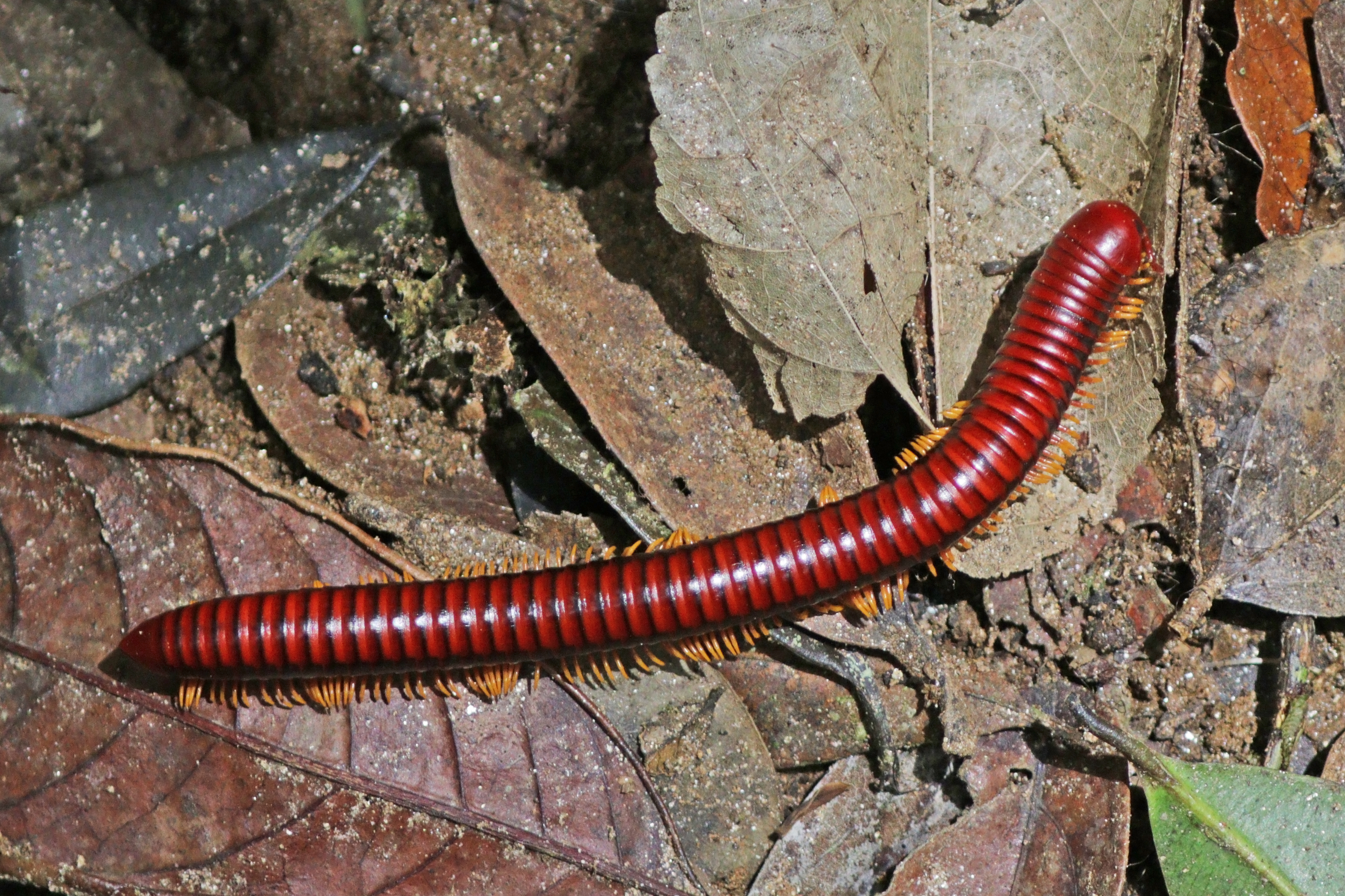 Giant fire millipede (Aphistogoniulus corallipes), Andasibe-Mantadia National Park, Madagascar